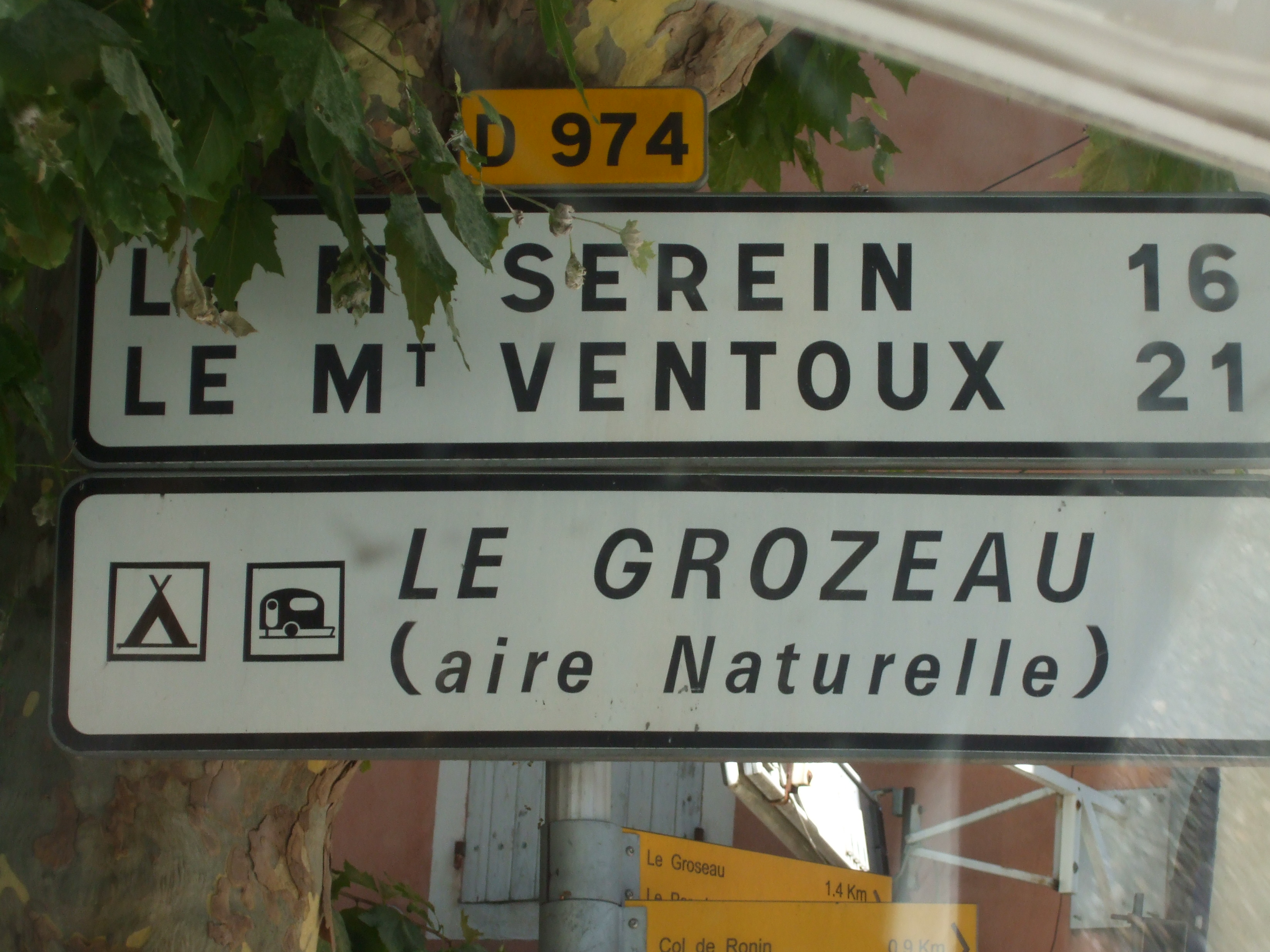 traffic sign to Mont Ventoux